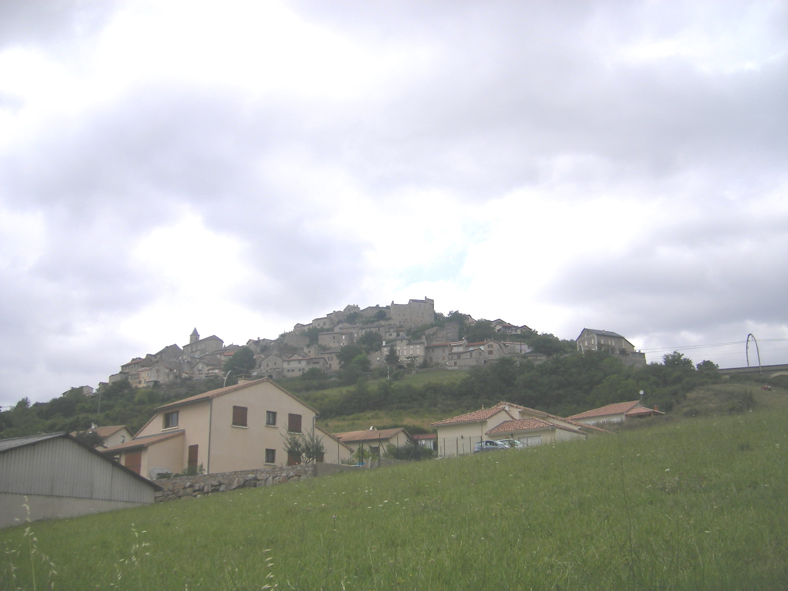 Compeyre as seen from the Tarn Valley